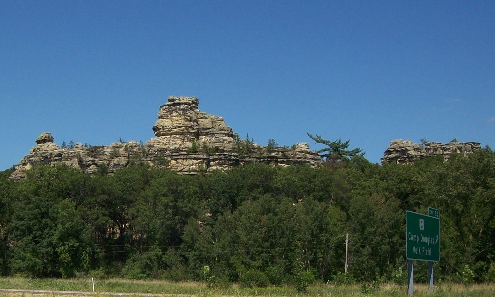 "Castle Rock" - formation visible from Interstate 90/94, near Exit 55, across from Camp Douglas, Wisconsin.